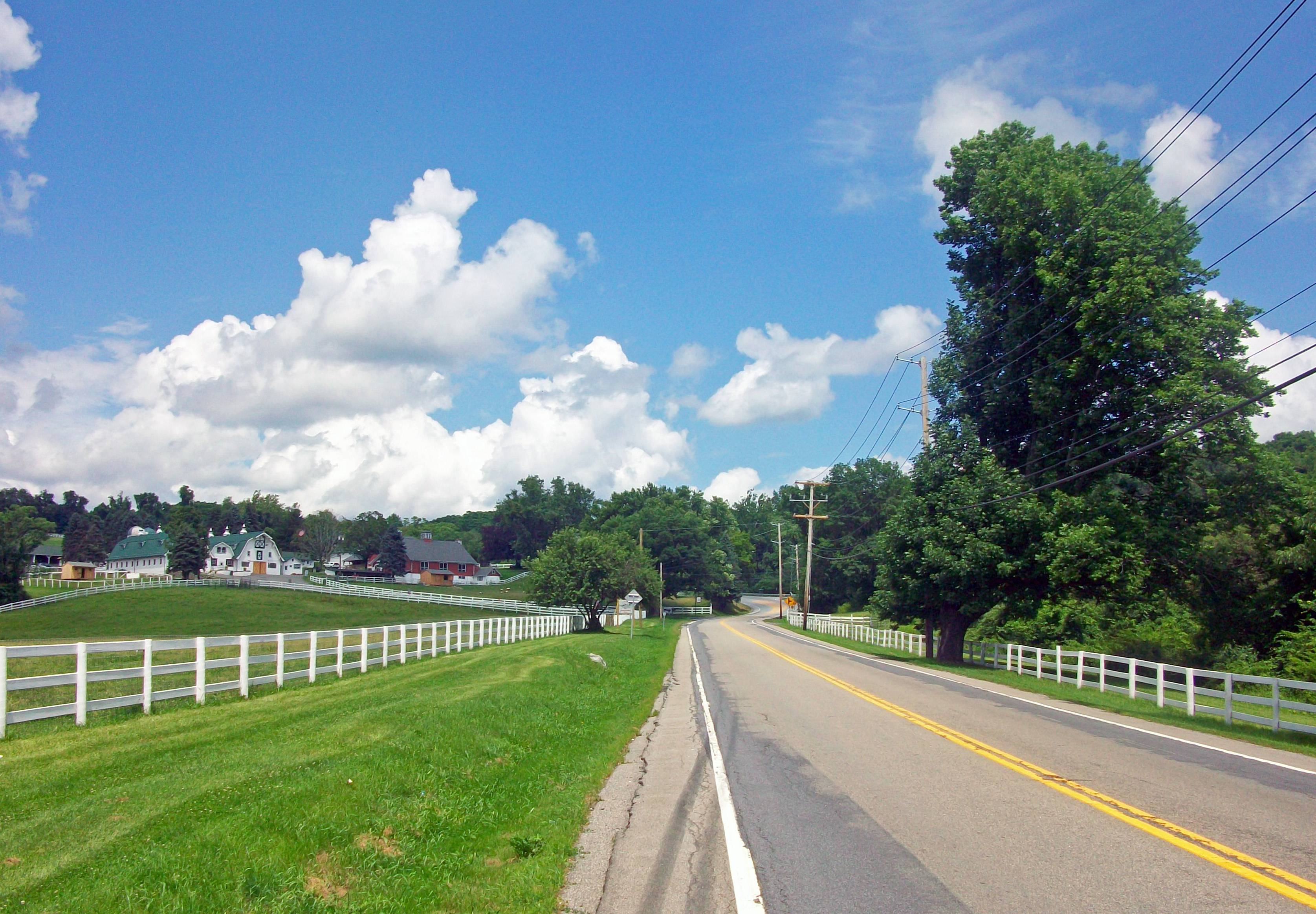 Eastbound (actually north at that point) view along NY 312 just north of its western terminus at US 6 in Southeast, NY, USA